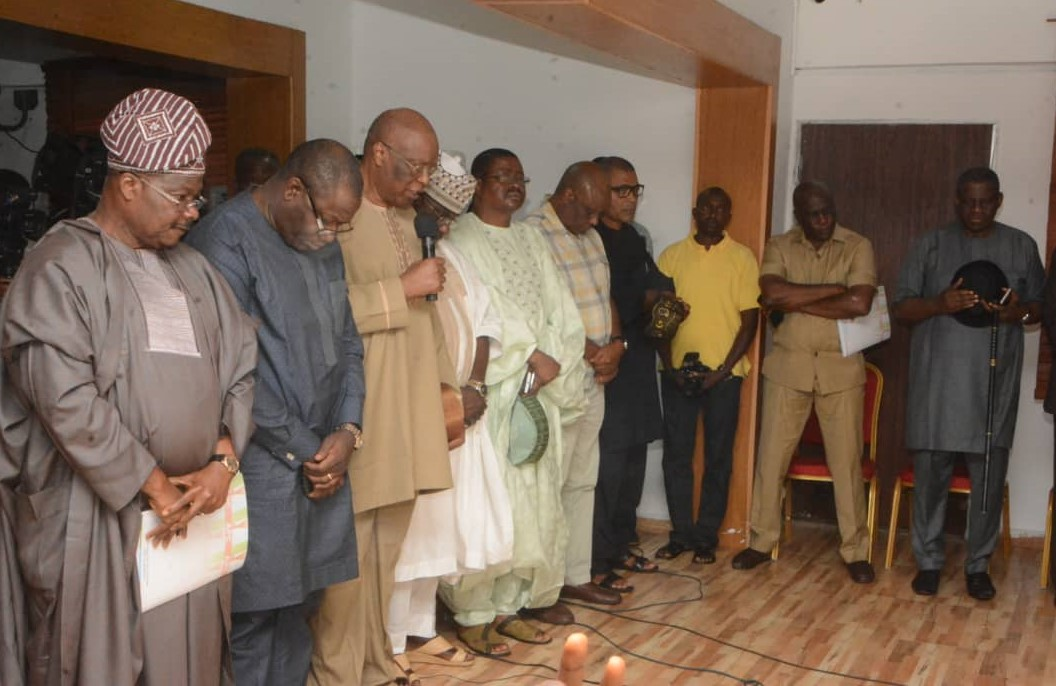 L-R Senator Abiola Ajimobi, Dr.Kayode Fayemi, Senator Oserheimen Osunbor, Ahmed Gulak, Senator Ocheja, Chief Clement Ebri, Ademola Rasaq Seriki, Pius Odubu, and Major Gen. Lawrence Onoja rtd. being sworn in as chairmen of the APC committees to conduct the gubernatorial primary elections of the party for the 2019 elections across Nigeria.